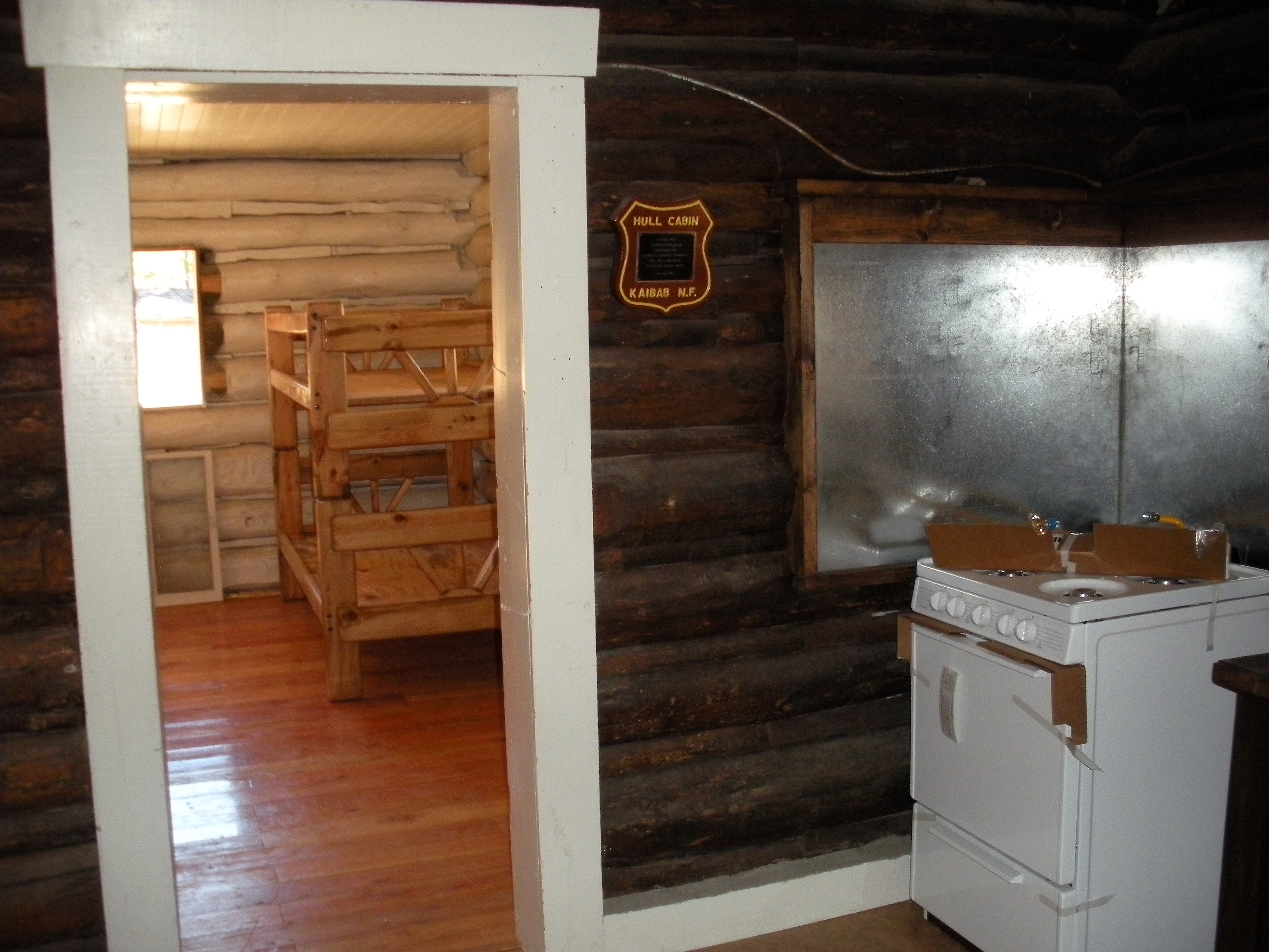 Interior of the Hull Cabin, Kaibab National Forest, Arizona, United States